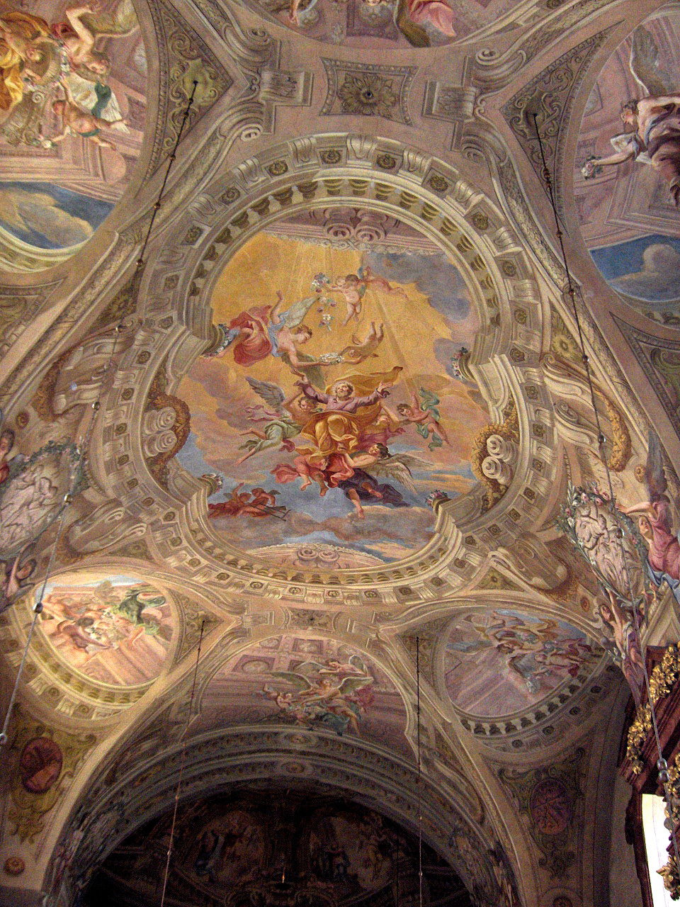 Wallfahrtskirche in Maria Taferl, Lower Austria; Frescos by Antonio Beduzzi (1714-1718): Ascension of Joseph to Heaven